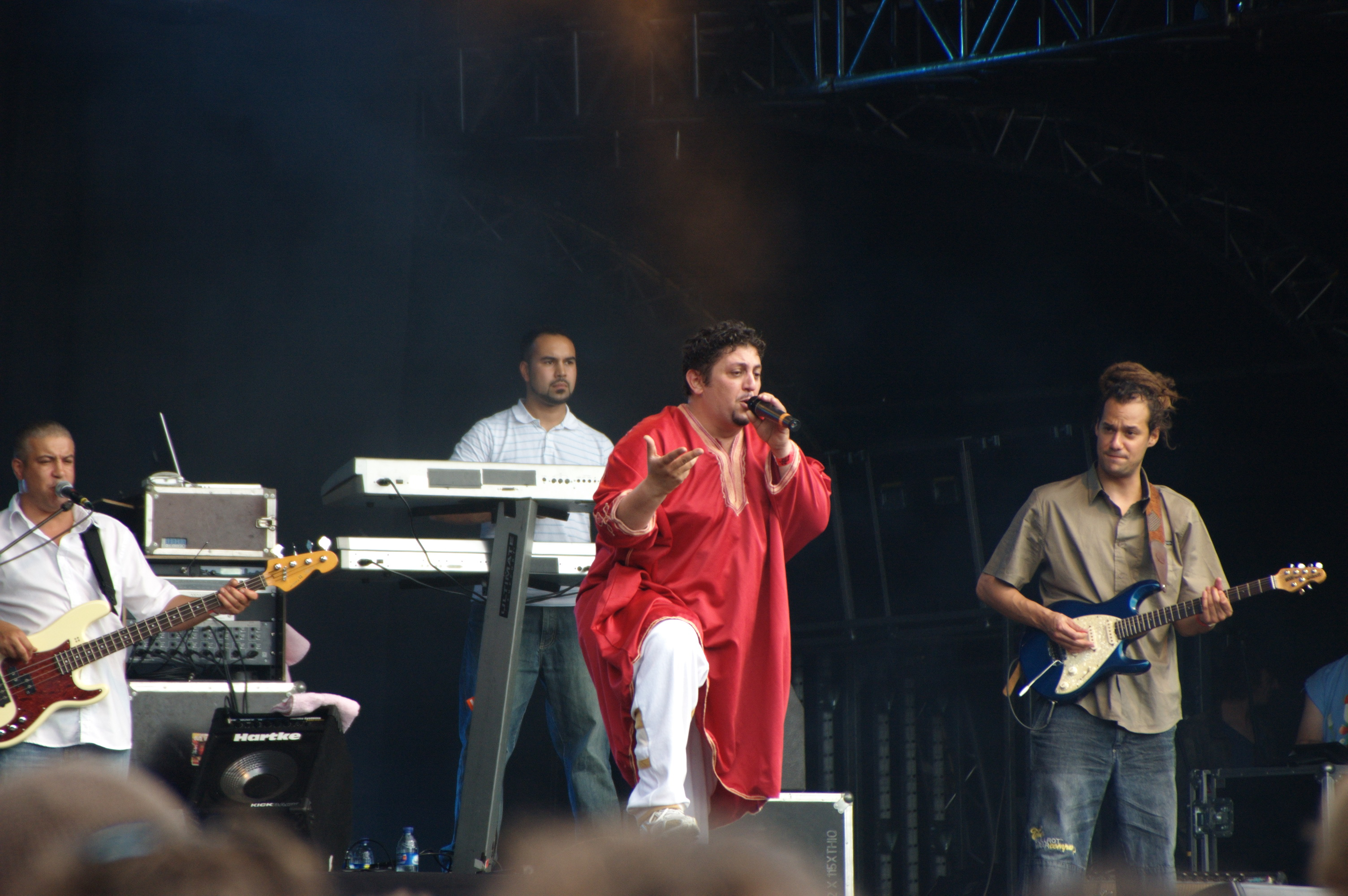 Hakim Meridja & Dub Incorporation @ Palais Royal (Music day 2008 in Brussels)